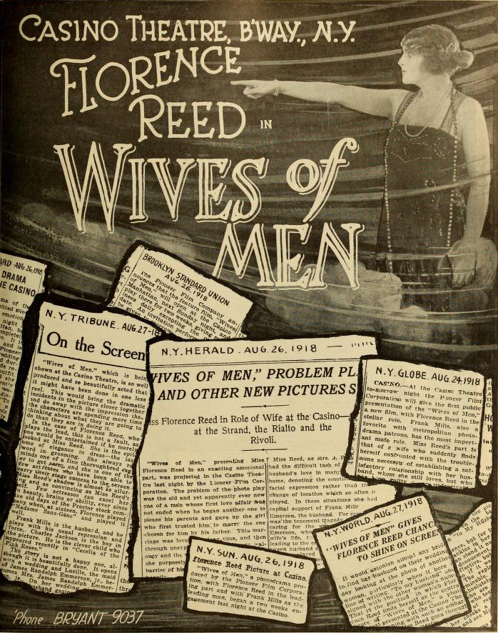 Advertisement in Moving Picture World for the American drama film Wives of Men (1918) with Florence Reed.